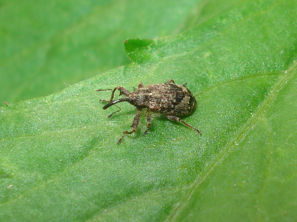 Anthonomus pomorum